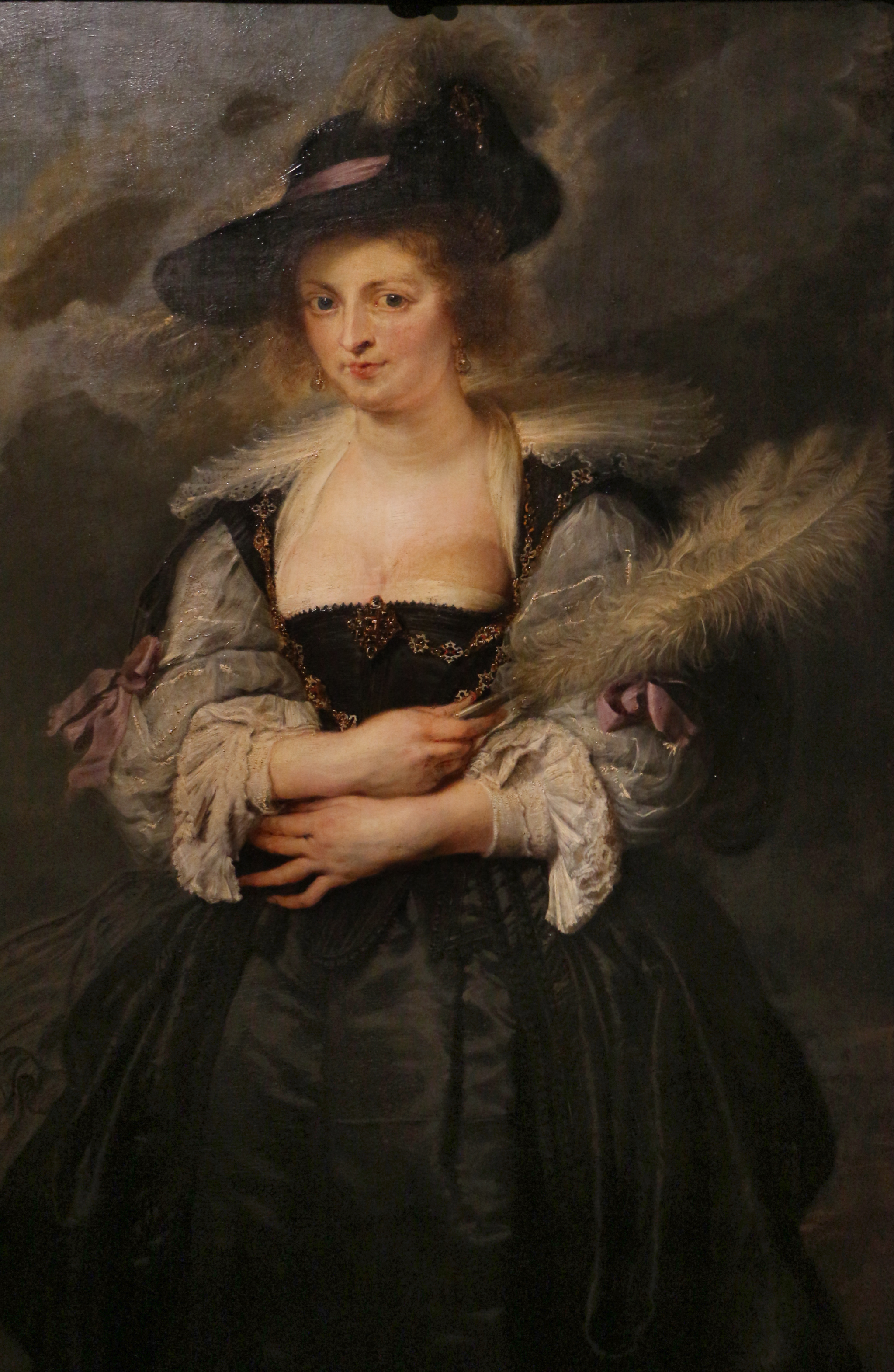 Flemish paintings in the Calouste Gulbenkian Museum